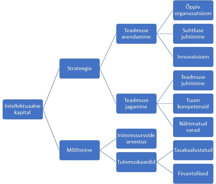 Roots of intellectual capital by J.Roos